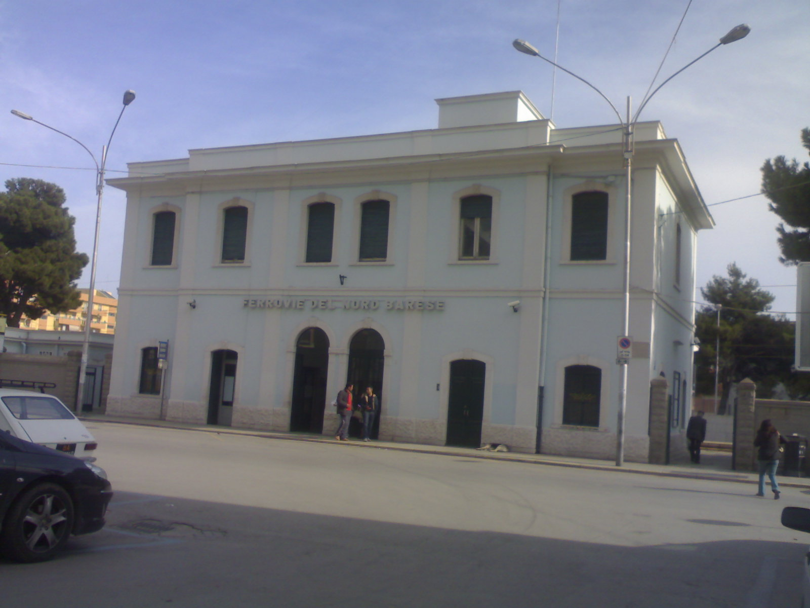 Stazione Ferrovie del Nord Barese - Andria - Piazza Bersaglieri d'Italia